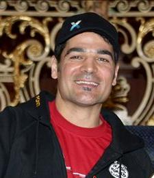 jordi font image